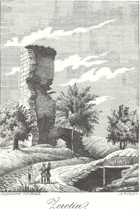 Žerotín Castle (Czech Republic) in 1846